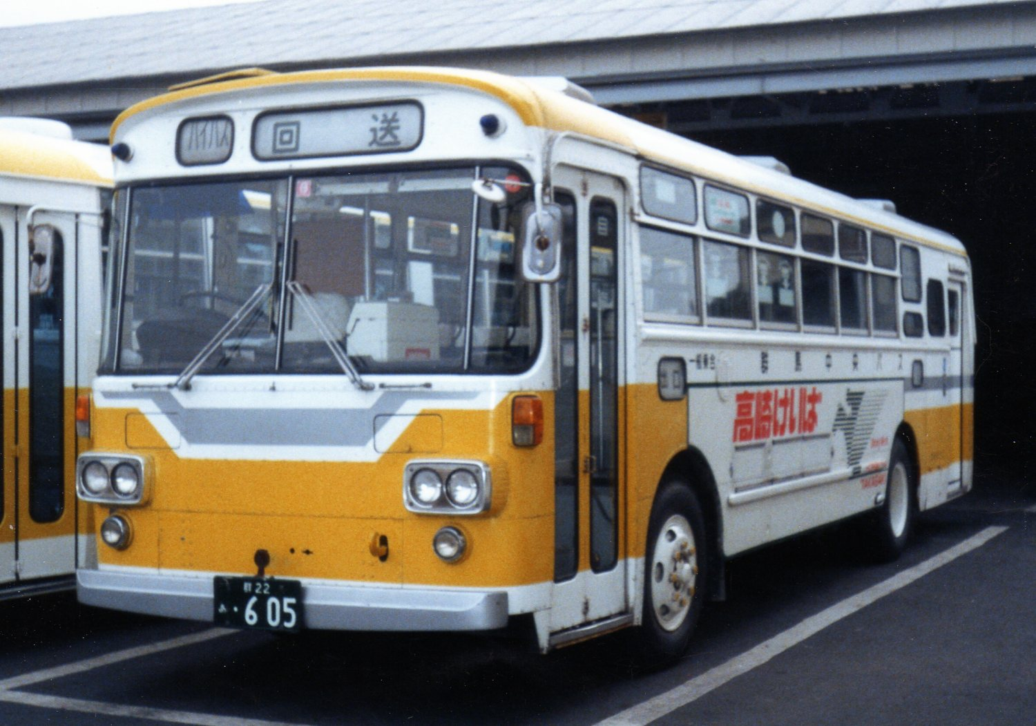 Gumma Chuo Bus Hino BT100 at Takasaki Branch This picture is obtaining and photoing permission of the persons concerned.